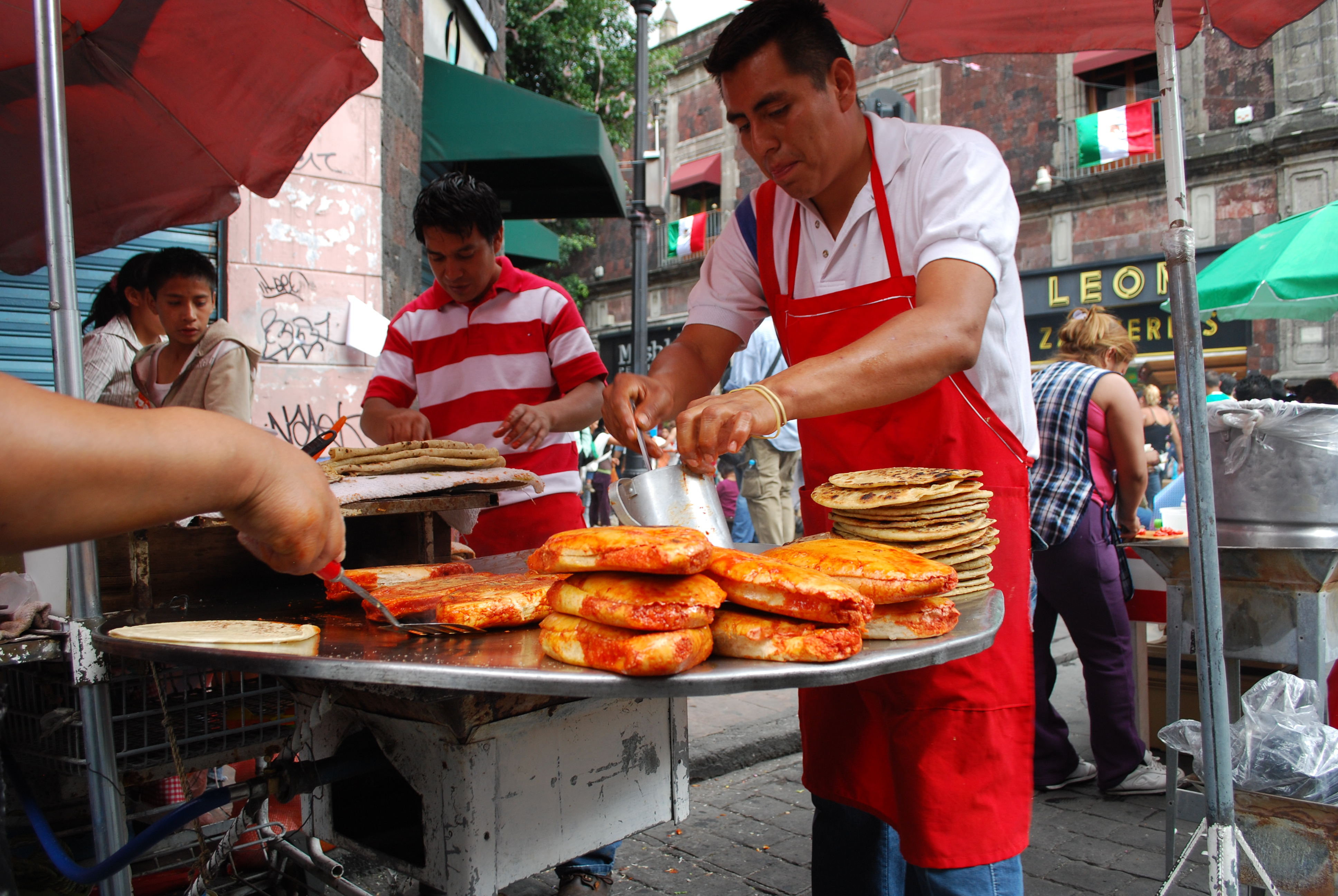 Cooking pambazos at a street stand in the historic center of Mexico City